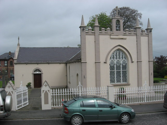 Church at Tallanstown, Co. Louth SS Peter and Paul Church, of late-18th century date with later Gothic front and interior. The railings, incorporating fasces, formerly surrounded the governor's garden at Dundalk Gaol and were re-erected here in the 1950s. However, it was felt appropriate that the axe-heads be removed.